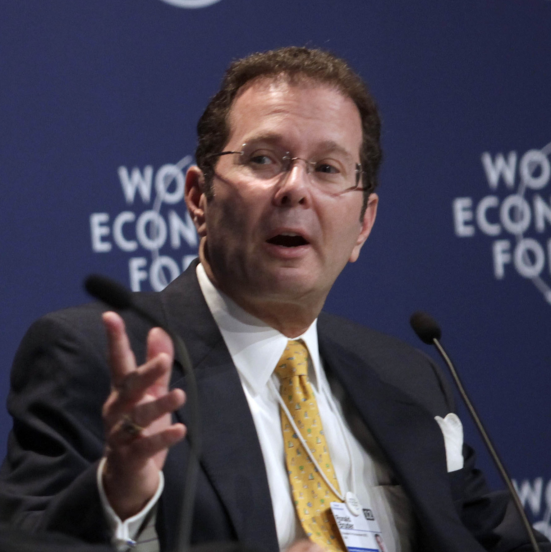 Ronald Bruder, Founder and Chair, Education For Employment (EFE), USA; Social Entrepreneur at the Annual Meeting of the New Champions in Tianjin, China 2012